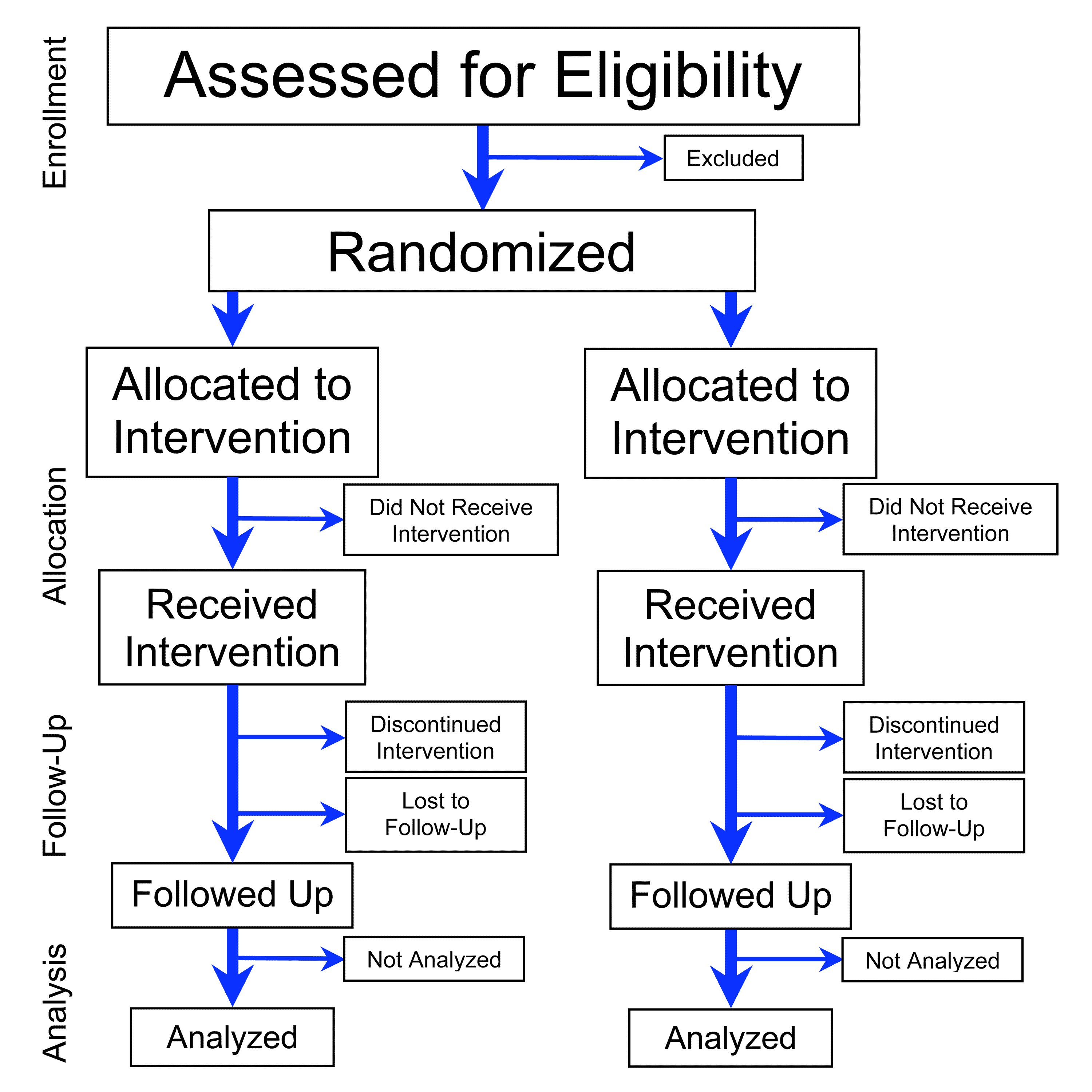 This flowchart is based on "Flow diagram of the progress through the phases of a parallel randomised trial of two groups (that is, enrolment, intervention allocation, follow-up, and data analysis)" ( which is part of: Schulz KF, Altman DG, Moher D; for the CONSORT Group. CONSORT 2010 Statement: updated guidelines for reporting parallel group randomised trials. BMJ. 2010 Mar 23;340:c332. ( The original diagram has been redrawn and modified to: (1) use American English spelling ("enrollment," "randomized," "analyzed"); (2) reduce the amount of text (e.g., deleted all occurrences of "(n=...)" and "(give reasons)", deleted specific exclusion reasons); (3) un-bold sideways text near left margin; (4) put steps in logical/chronological order (e.g., reversed order of "lost to follow-up" and "discontinued intervention" as latter could occur without former); (5) increase the size of downward-pointing arrows relative to text; (6) from top to bottom, progressively decrease the font size of text in boxes connected by downward-pointing arrows, to suggest decrease in number of subjects between "assessed for eligibility" and "analyzed."